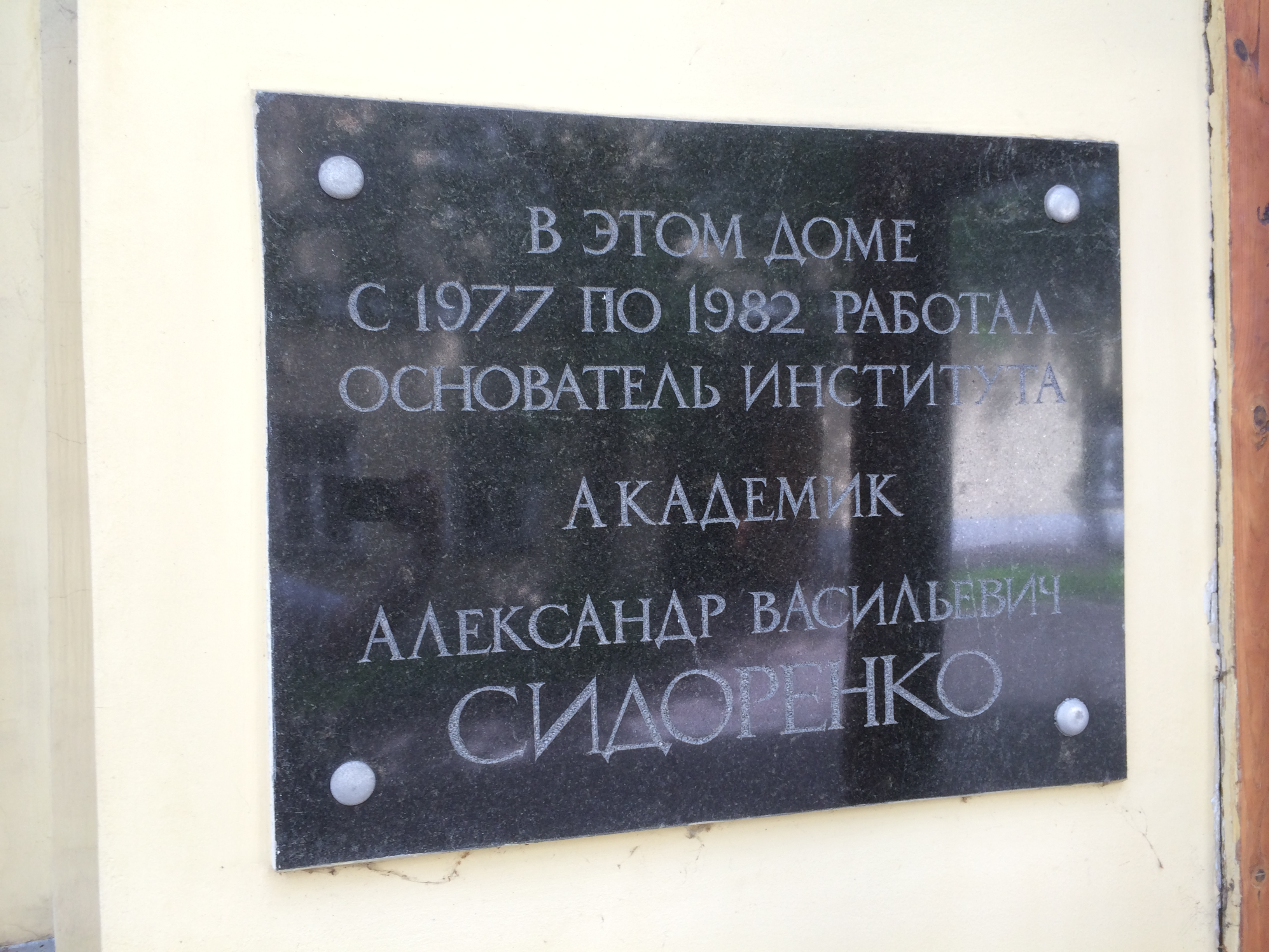 Institute of Geology